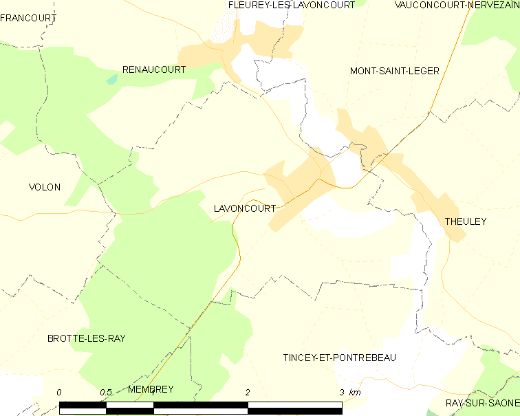 Map of French municipality